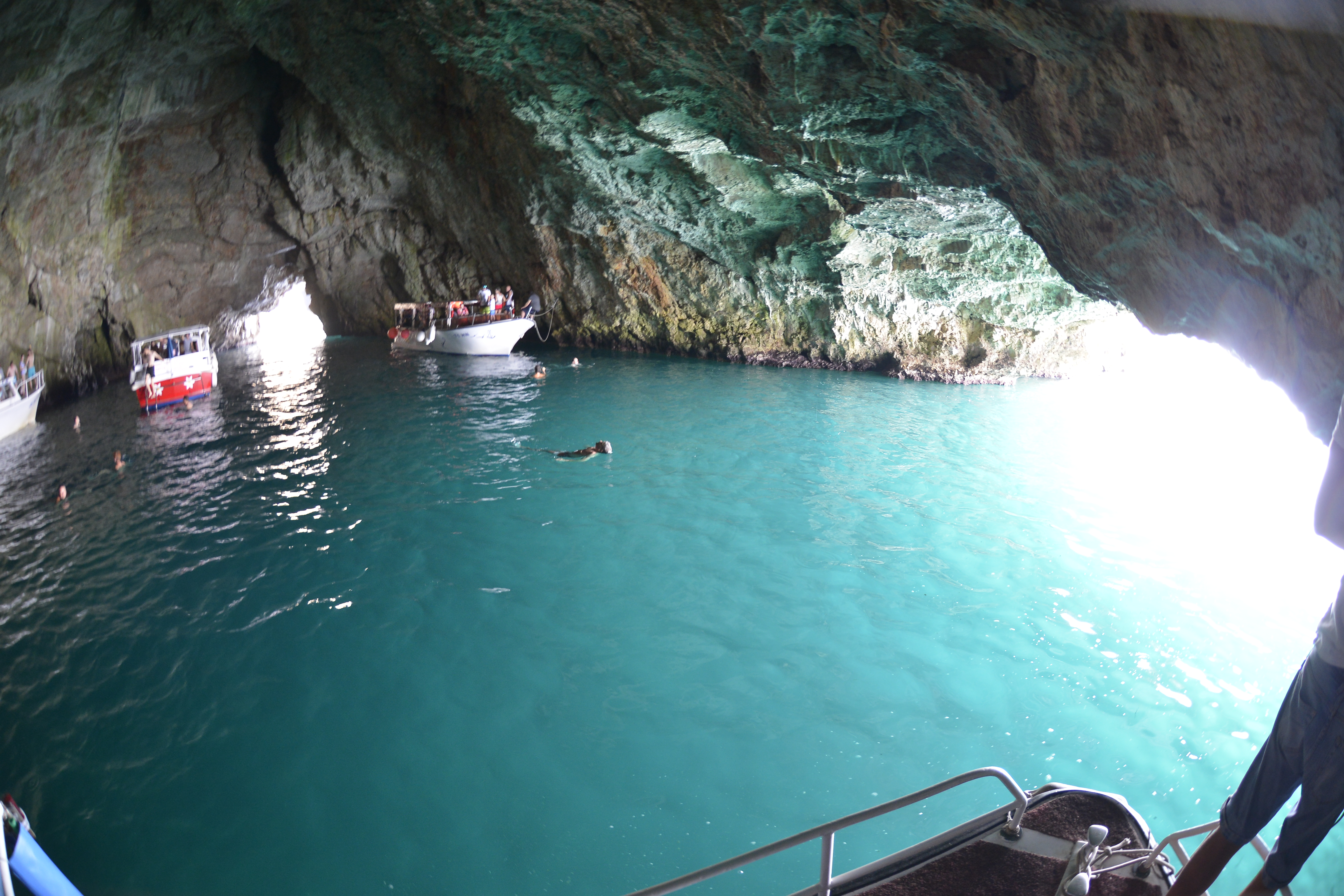 Blue Cave (Plava špilja), near Herceg Novi, Bay of Kotor, Montenegro